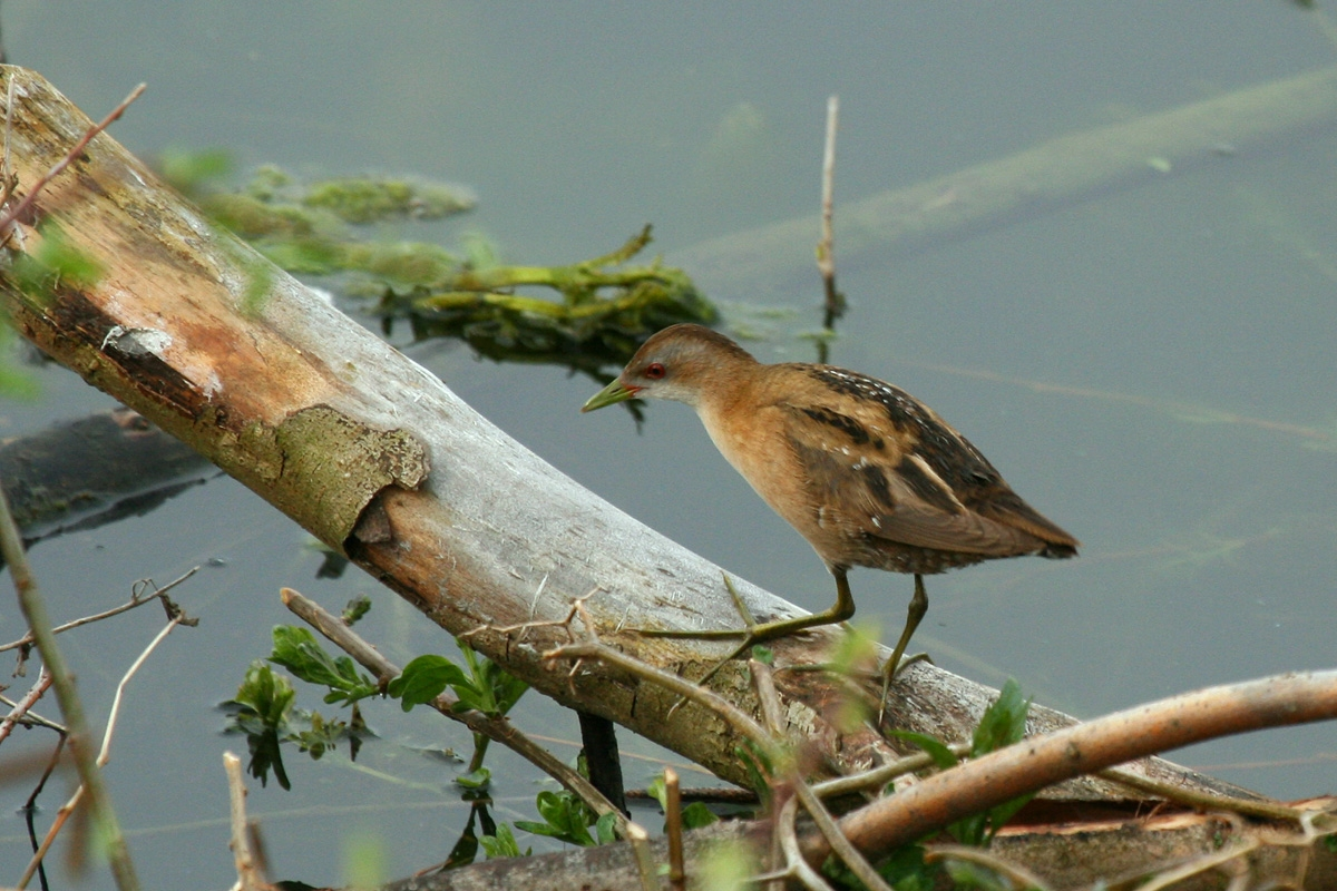 female Little Crake (Porzana parva, RALLIDAE, near Waghäusel, Germany.